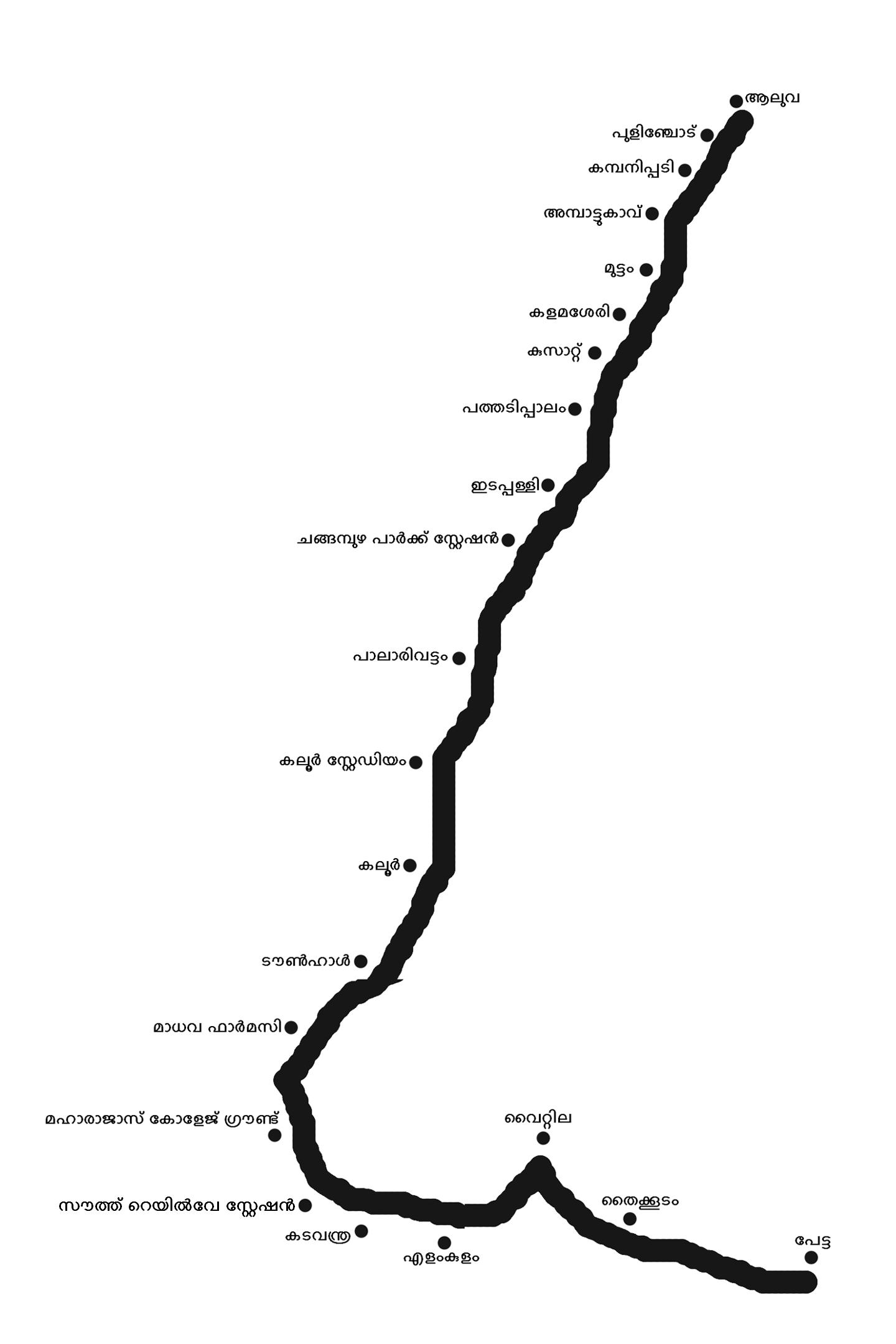 Kochi Metro Rail Route (Komet)